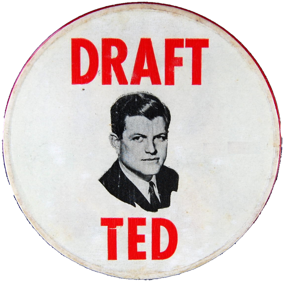 Campaign button for the Draft Ted movement in 1968